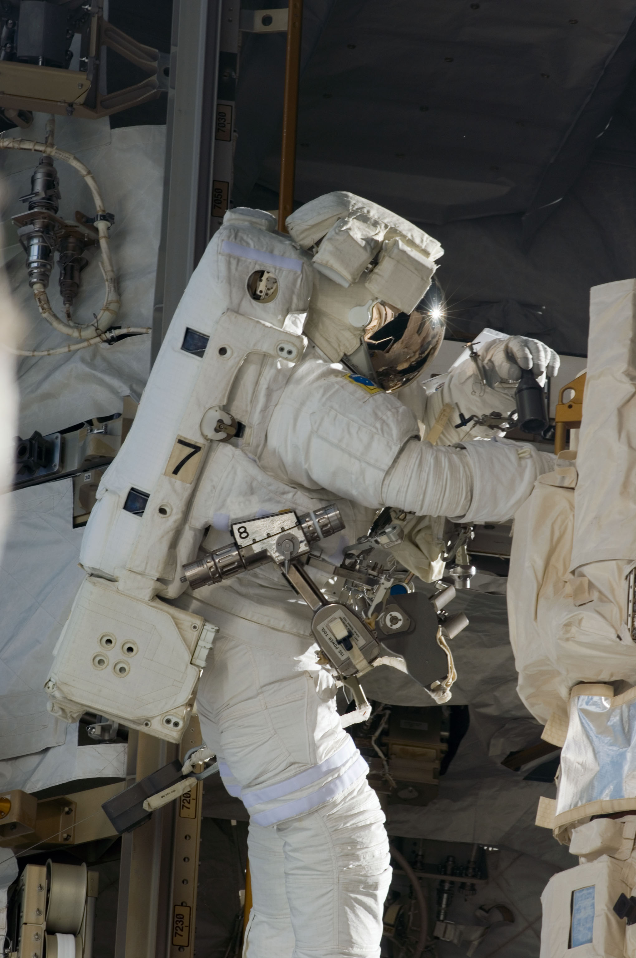 Astronaut Ron Garan works on assigned tasks during the last scheduled spacewalk of the STS-124 mission specialist. During the six-hour, 33-minute spacewalk, Garan and fellow astronaut Mike Fossum exchanged a depleted Nitrogen Tank Assembly for a new one, removed thermal covers and launch locks from the Kibo laboratory, reinstalled a repaired television camera onto the space station's left P1 truss,and retrieved samples of a dust-like substance from the left Solar Alpha Rotary Joint for analysis by experts on the ground.